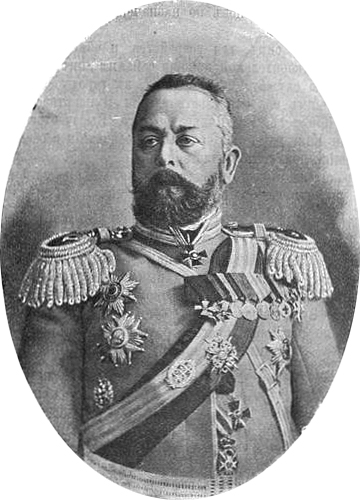 Aleksandr Vassilievich Samsonov, Russian general